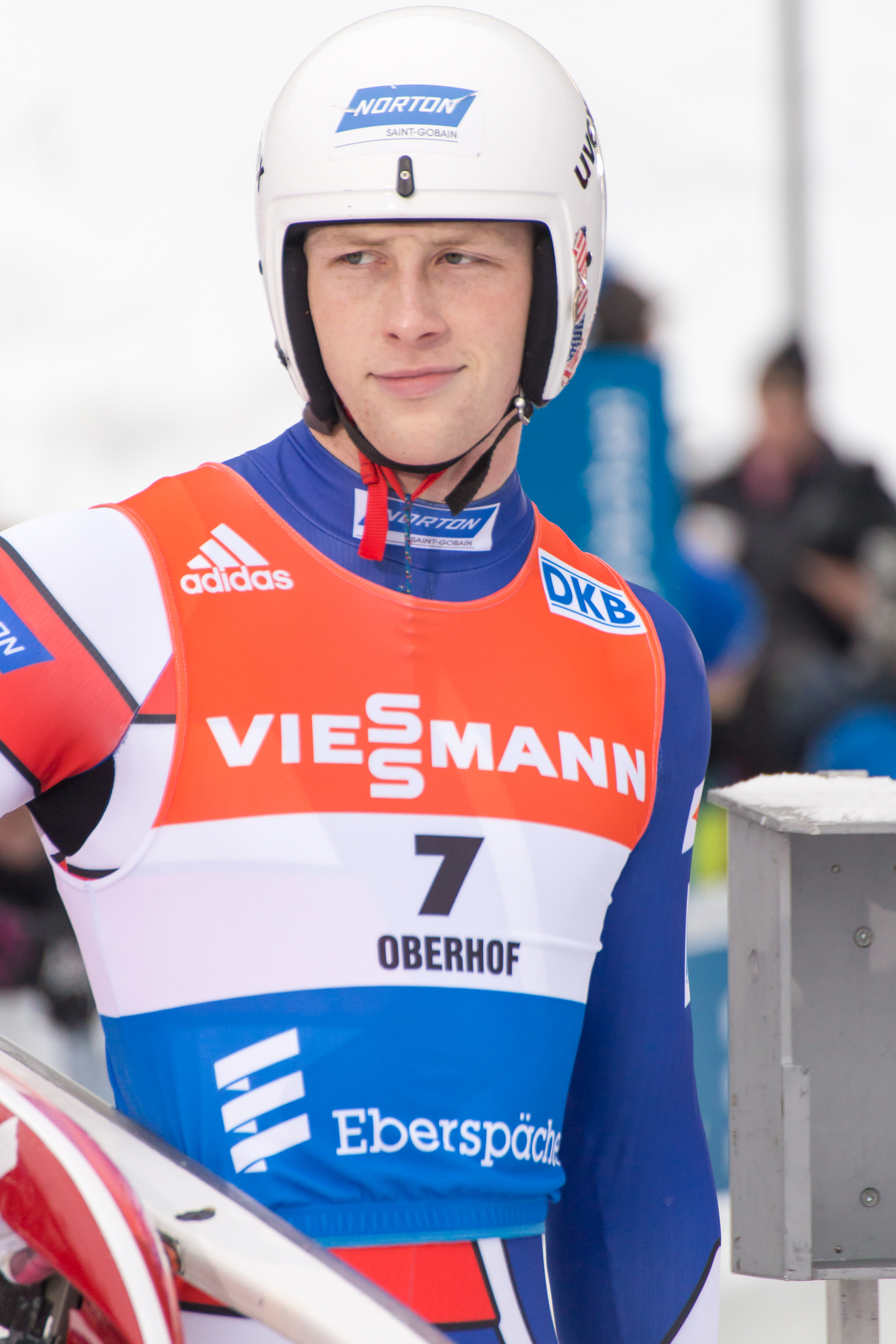 Luge world cup Oberhof 2016-01-16